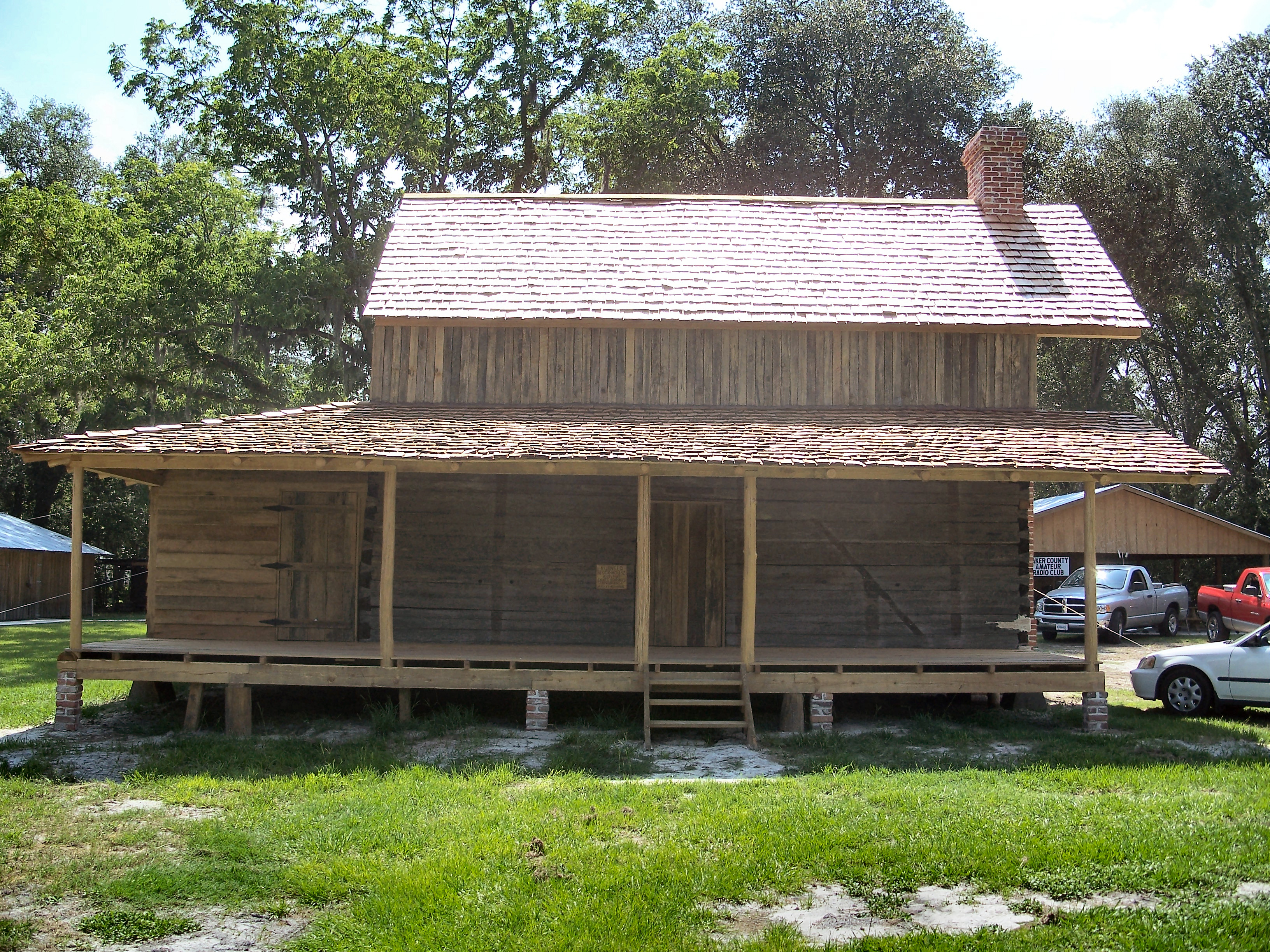 Burnsed Blockhouse, moved from outside Sanderson to the Heritage Park in Macclenny, Florida